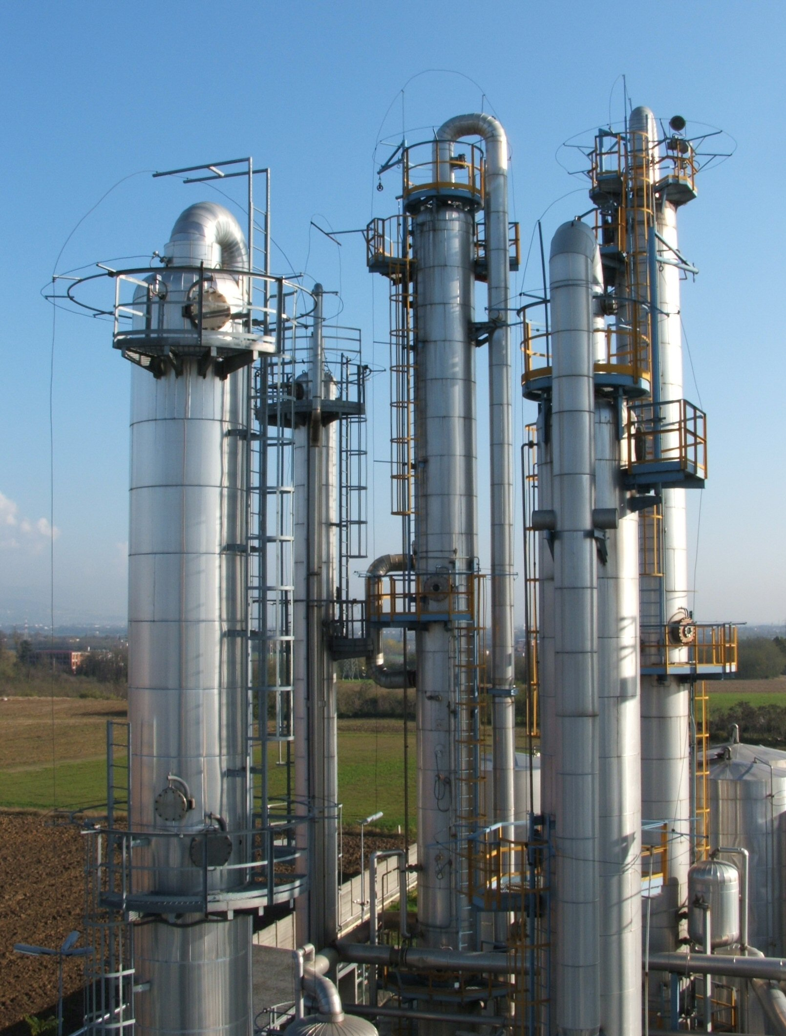 A double effect distillation plant.